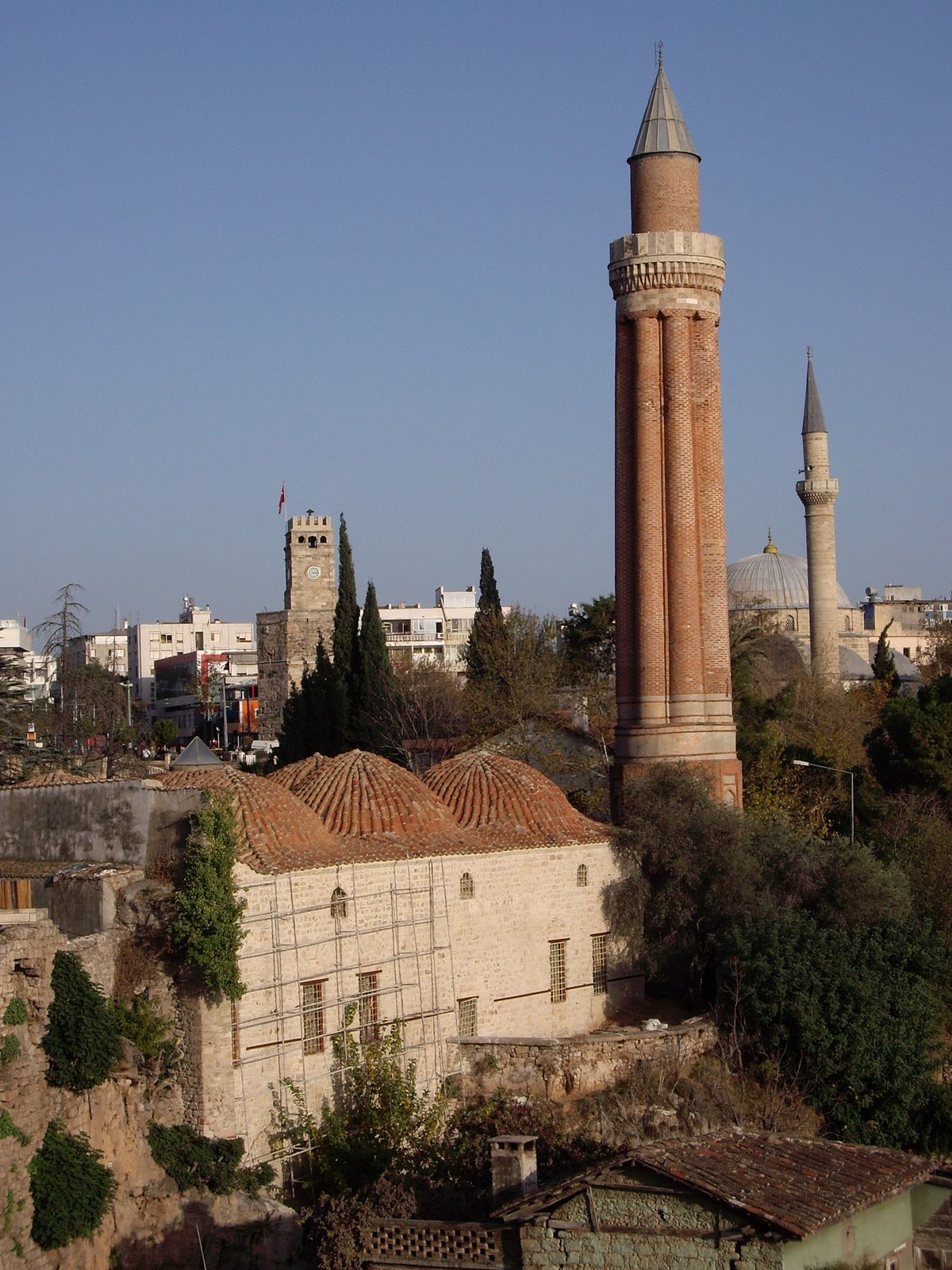 Yivli Minare Mosque (or Alaaddin Mosque) is a historic mosque in Antalya. It is famous for its fluted minaret which is also the symbol of Antalya